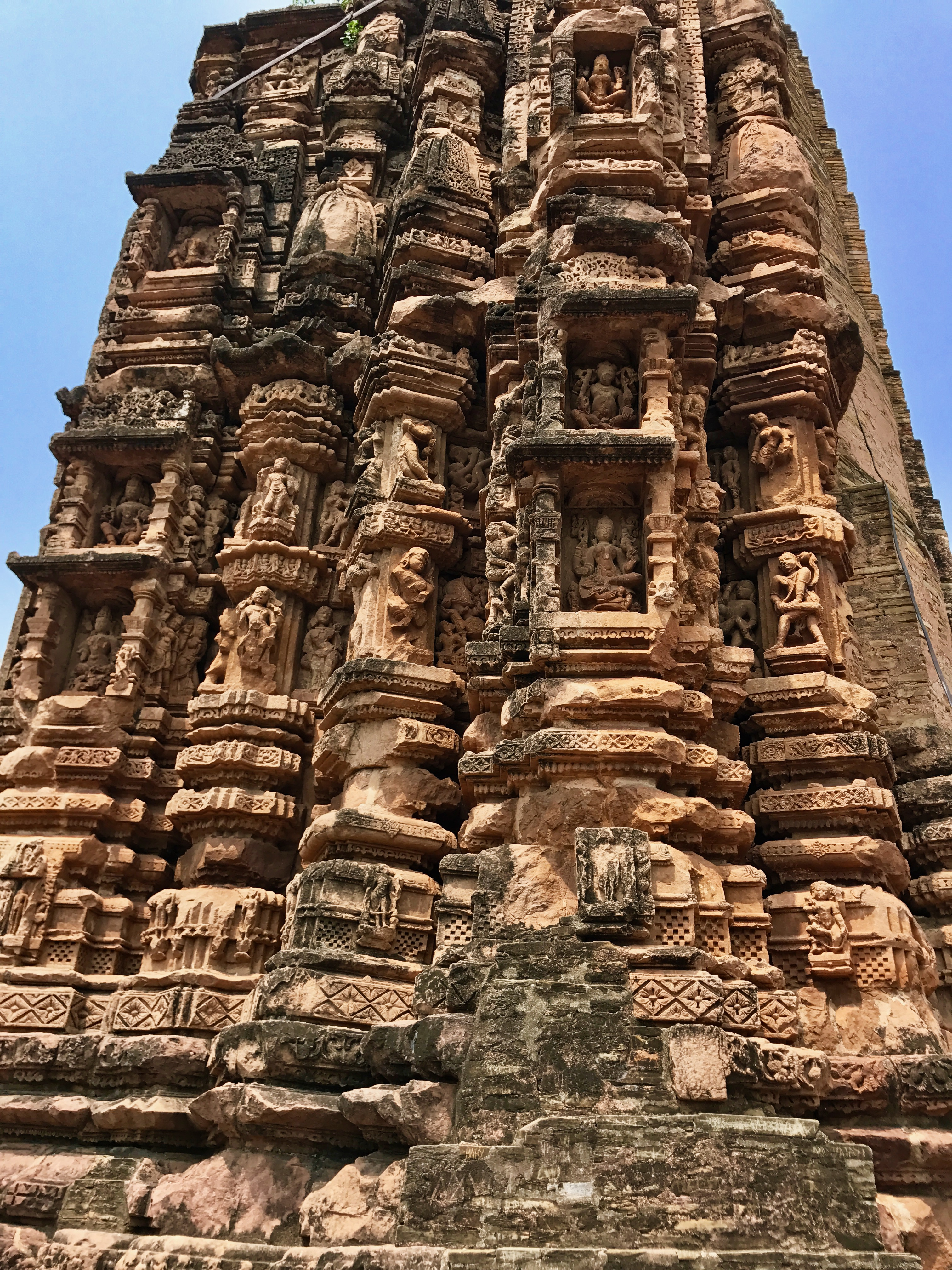 Arang, Chhattisgarh is a small town east of Raipur near Mahanadi river. The region is home to many 7th to 9th century Hindu and Jain temples. They are typically made of brick or stone or a combination. The Bhand Deul Jain temple in Arang is made of brick, though the statues of Tirthankaras inside is made of rock. The brick is intricately carved which has weathered over time. The temple also shows signs of intentional damage. The carvings show kama scenes, dancers and musicians. The lower layers have rows of horses and elephants. It was likely built in the 9th century during the Haihaya dynasty.